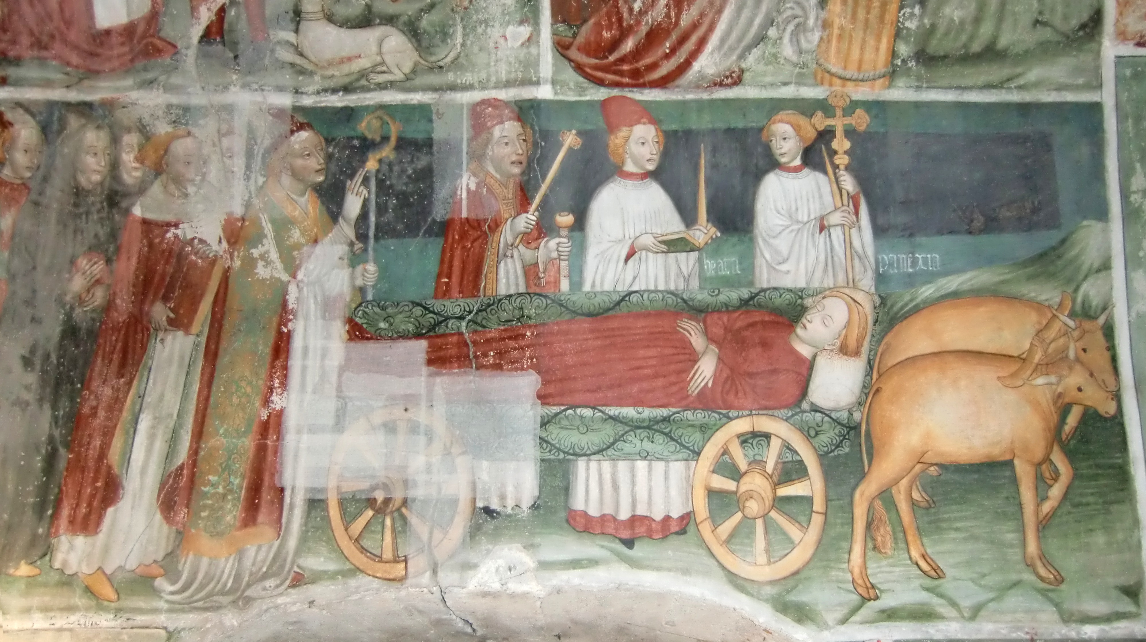 Johannes de Campo, Burial of the Blessed Panacea, fresco, XV century, Oratorio di San Pantaleone, Boccioleto (VC), Italy